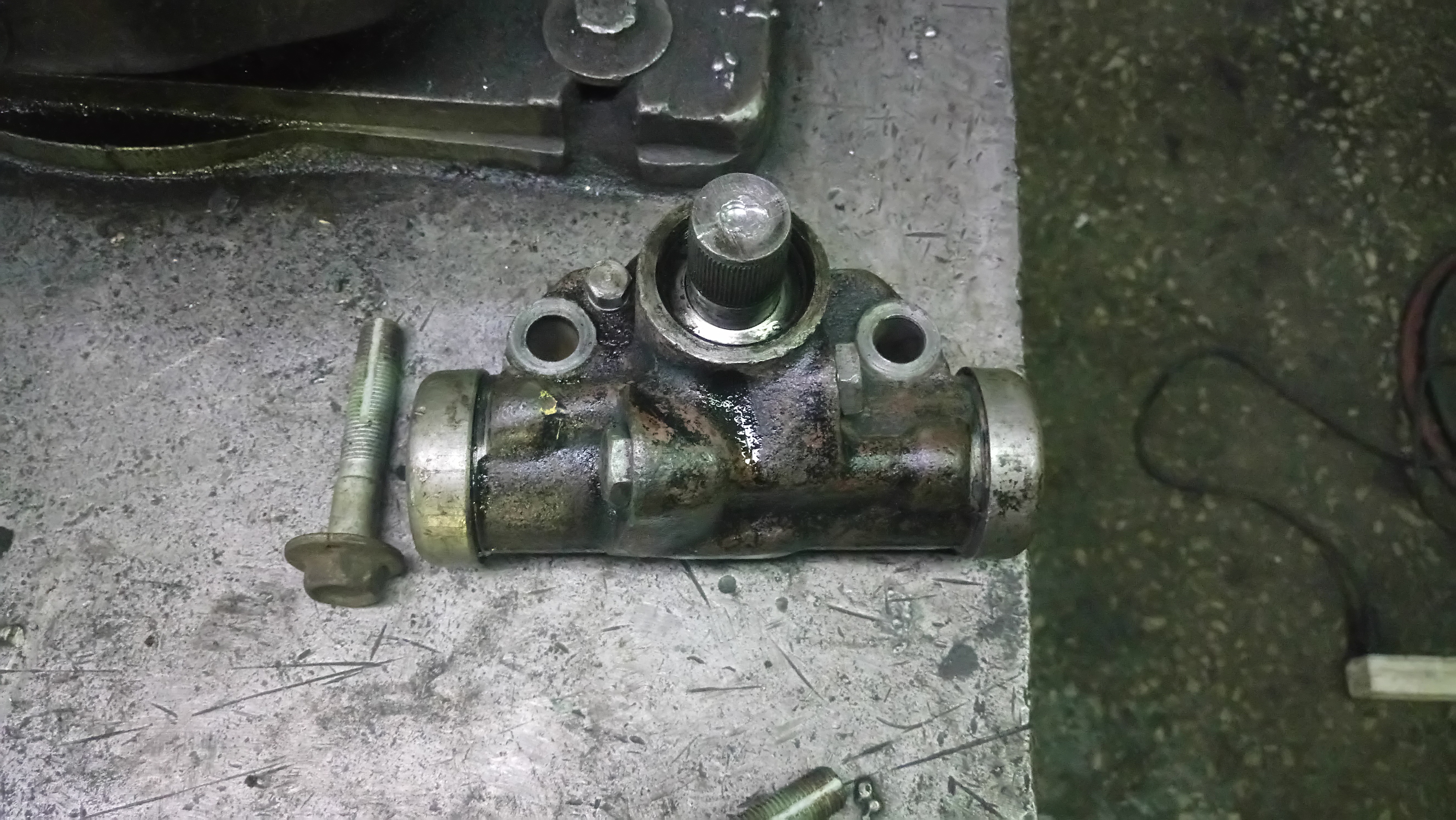 A "lever-arm" type rear shock absorber of a Volga GAZ M-21I, dismantled for maintenance.